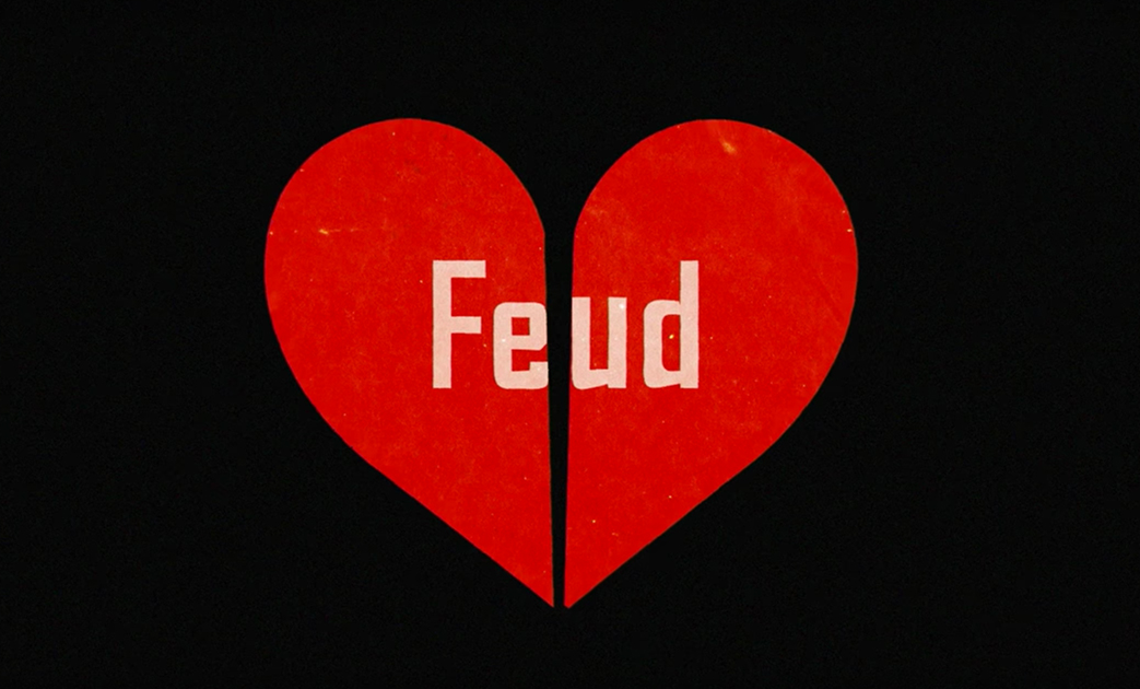 Title card from the opening titles of the FX drama series Feud: Bette and Joan.